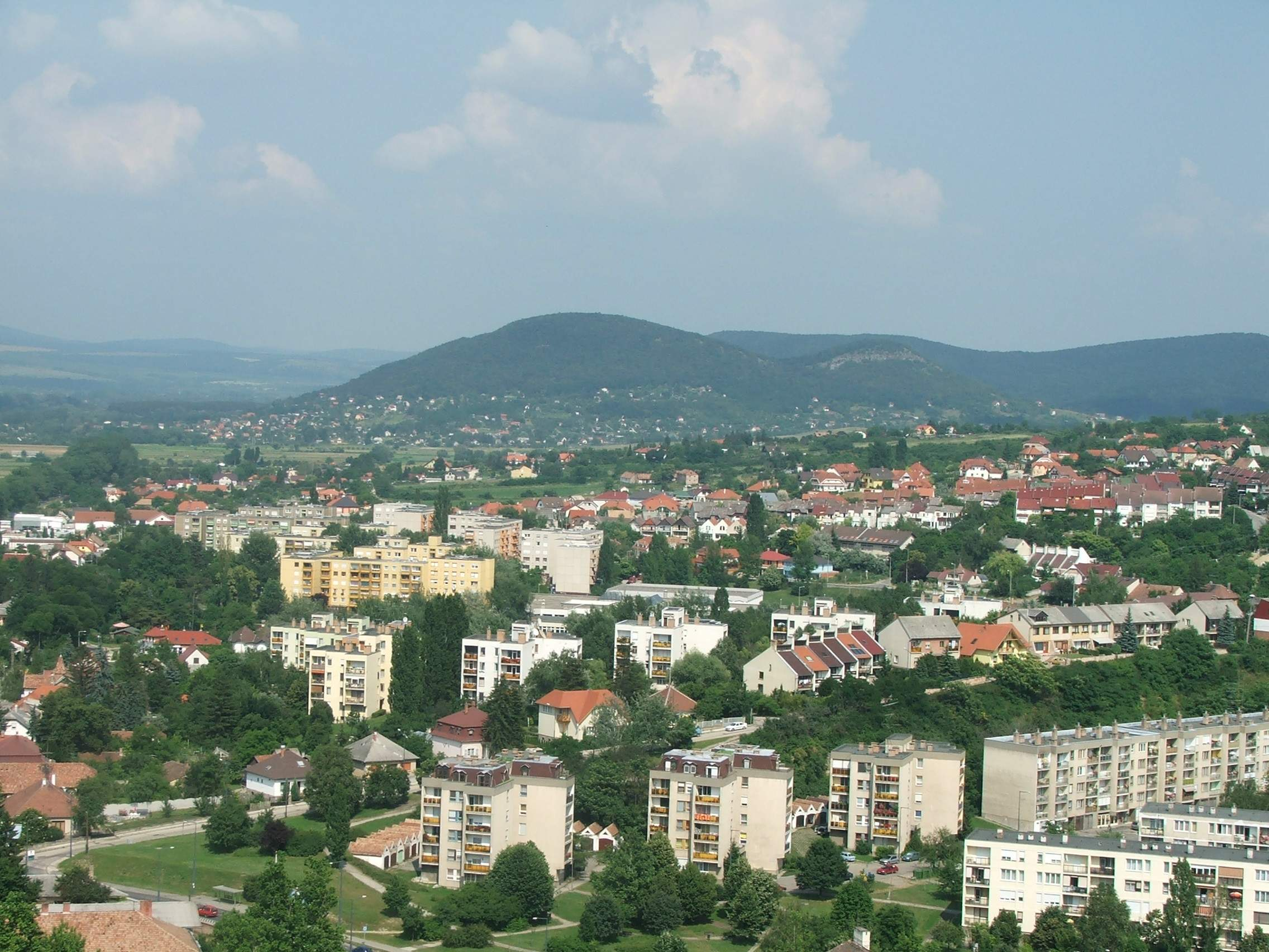 The modern "Bánom" part of Esztergom, with the Szamárhegy hill in the background.